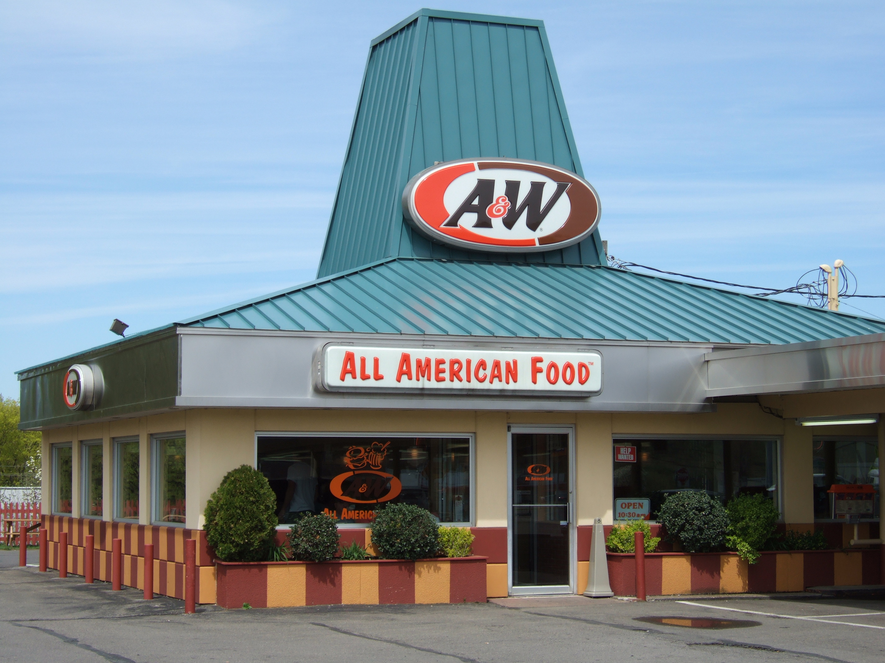 Cortland, New York